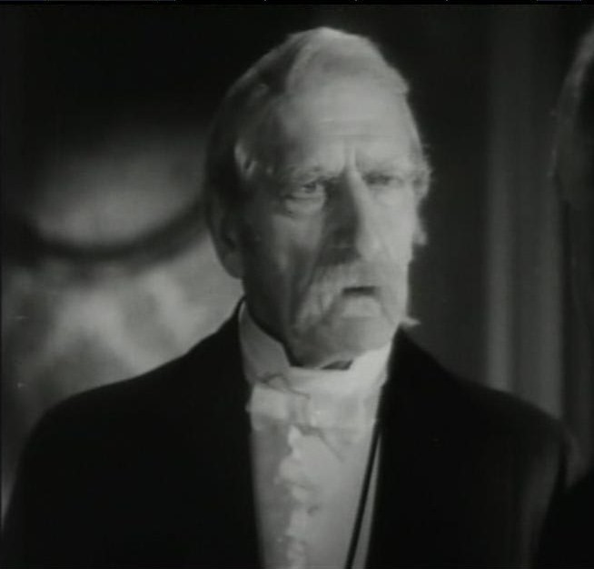 C. Aubrey Smith in a cropped frame of Little Lord Fauntleroy (1936).